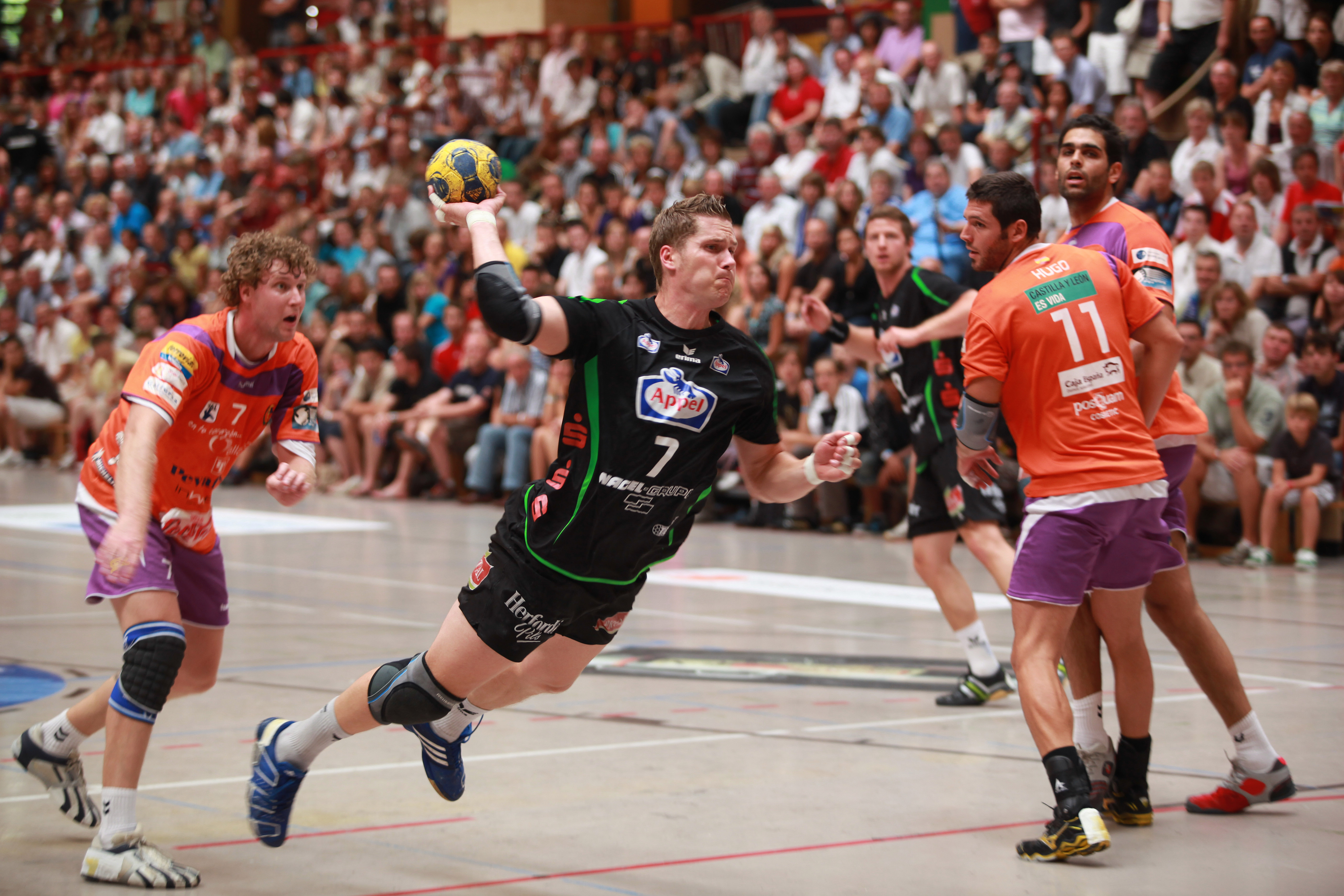 Sebastian Preiß, German handball player from TBV Lemgo during the Schlecker Cup 2009 in Ehingen (Germany)